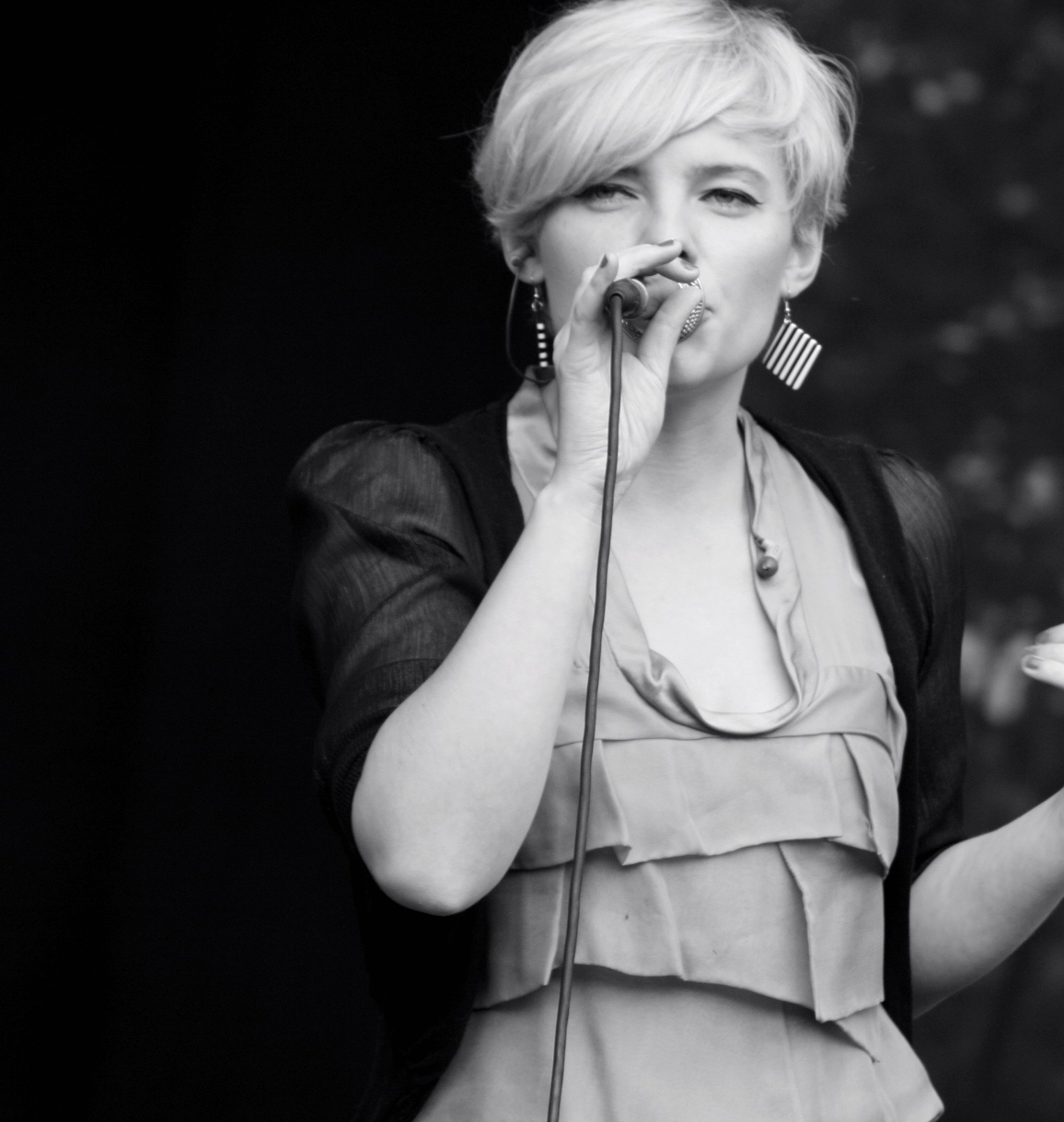 Ania Dąbrowska in concert in Krakow (Koncert z okazji 100-lecia KU AZS UJ)